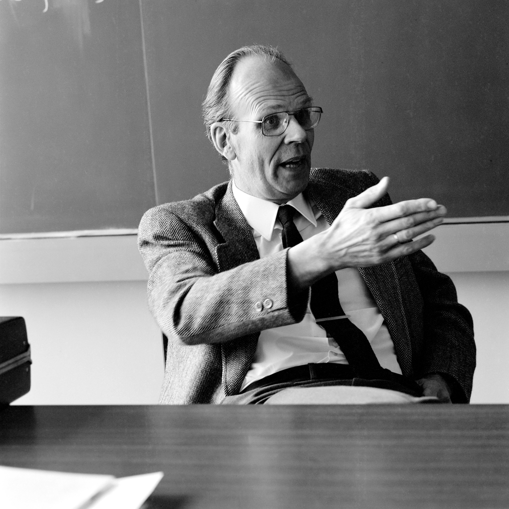 Léon Van Hove, Belgian theoretical physicist and Research Director General of CERN from 1976-80, here seen during an interview made at CERN in March 1976.